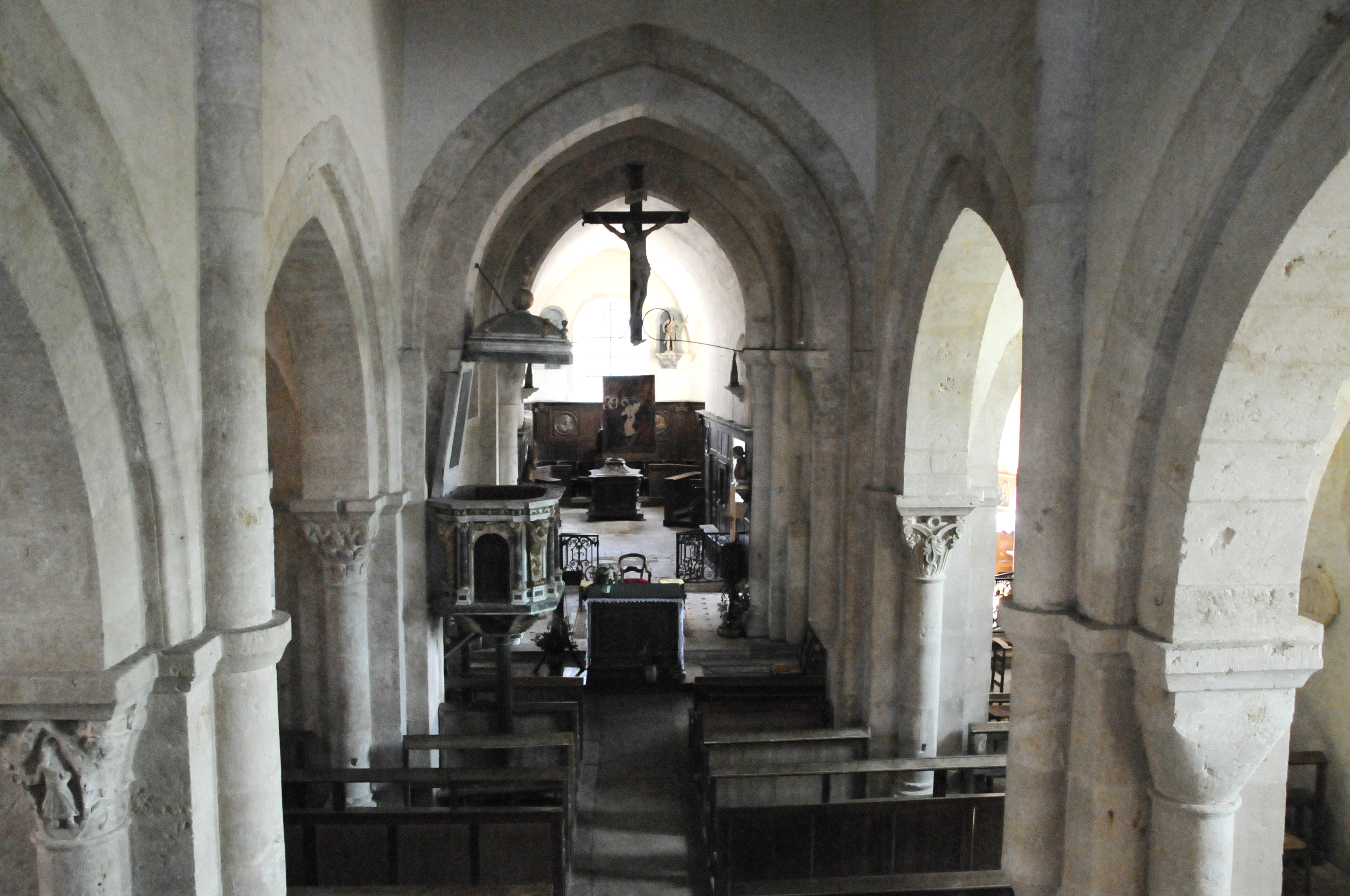 The church St. Antonin Bussy-le-grand, Burgundy, France